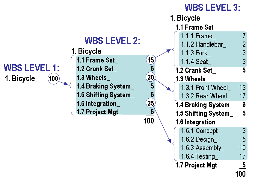 This image was created by Garry L. Booker for the public domain. Some text, an exemplary WBS for a custom bicycle project, is from the Practice Standard for Work Breakdown Structures (Second Edition), , and employed under fair use. This is because the original WBS example is substantially extended in this image to demonstrate step-wise construction of the WBS using a numerical method, which is not included in the cited reference. This image also includes a modification to demonstrate a coding scheme for terminal elements, which is also not included in the cited reference. Garrybooker 01:49, 3 December 2006 (UTC)